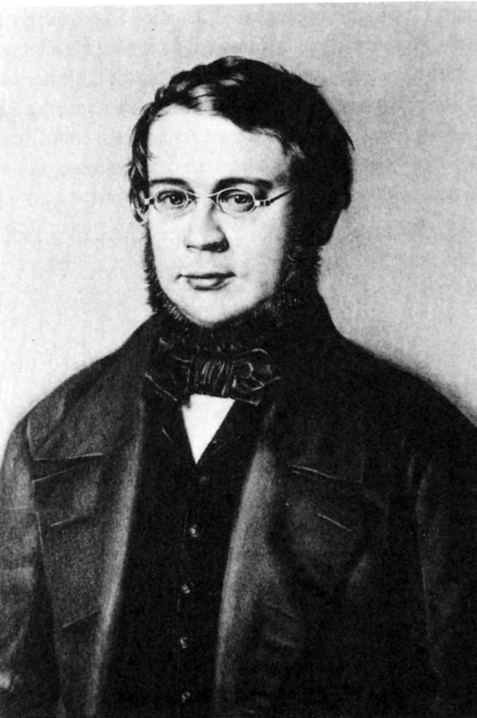 Otto Jahn (1813–1869) in Greifswald, 1837. Reproduction of an oil painting.